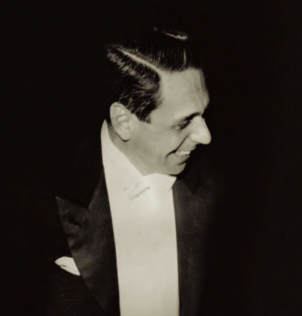 Duke Fulco di Verdura wearing black tie, circa 1939.